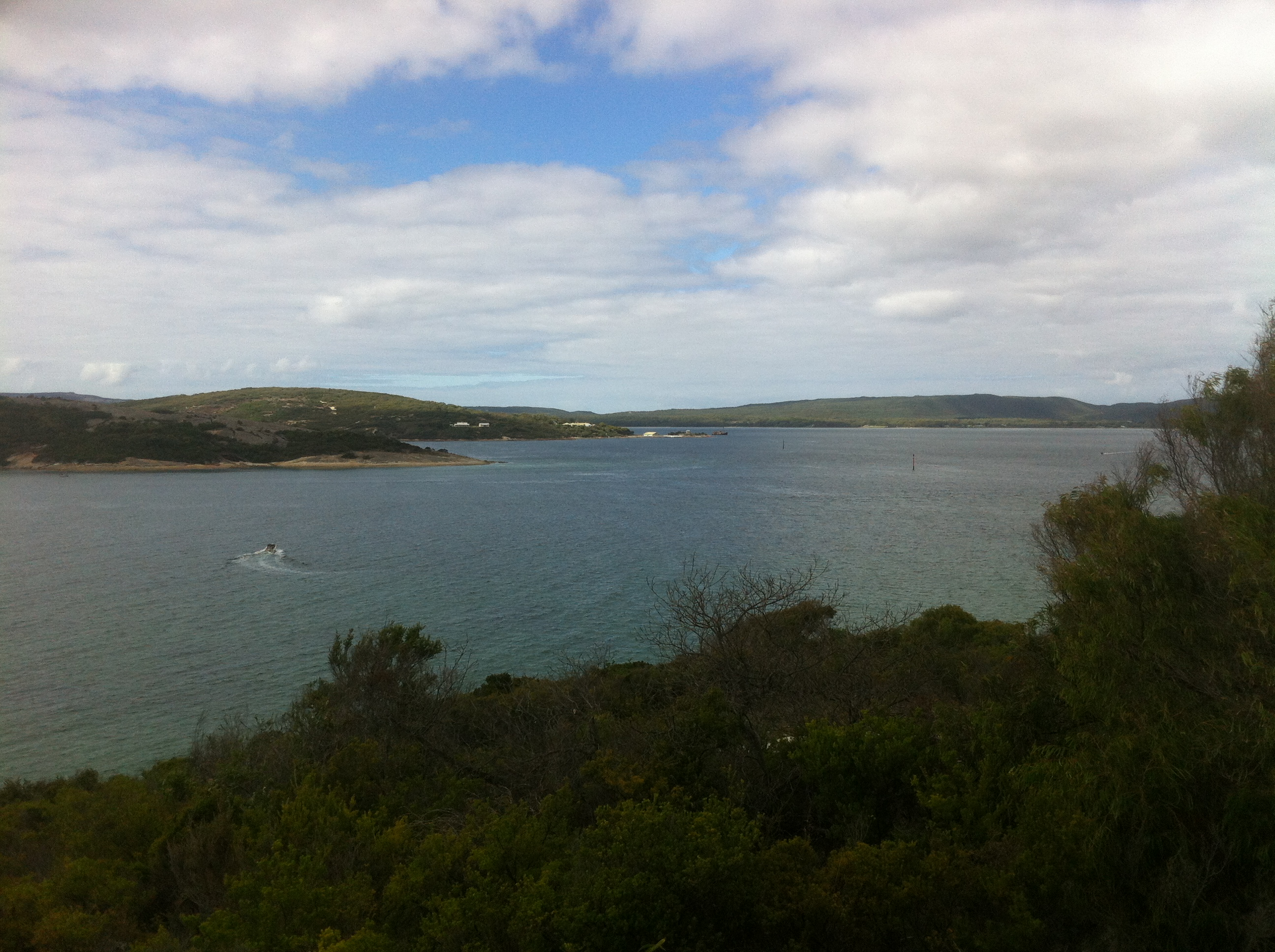 Quaranup from Ataturk Entrance